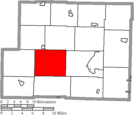 Map of the municipal and township boundaries of Harrison County, Ohio, United States, as of the 2000 census, with the location of Nottingham Township highlighted. Township borders are shown only in unincorporated areas in order to differentiate incorporated and unincorporated areas more clearly.